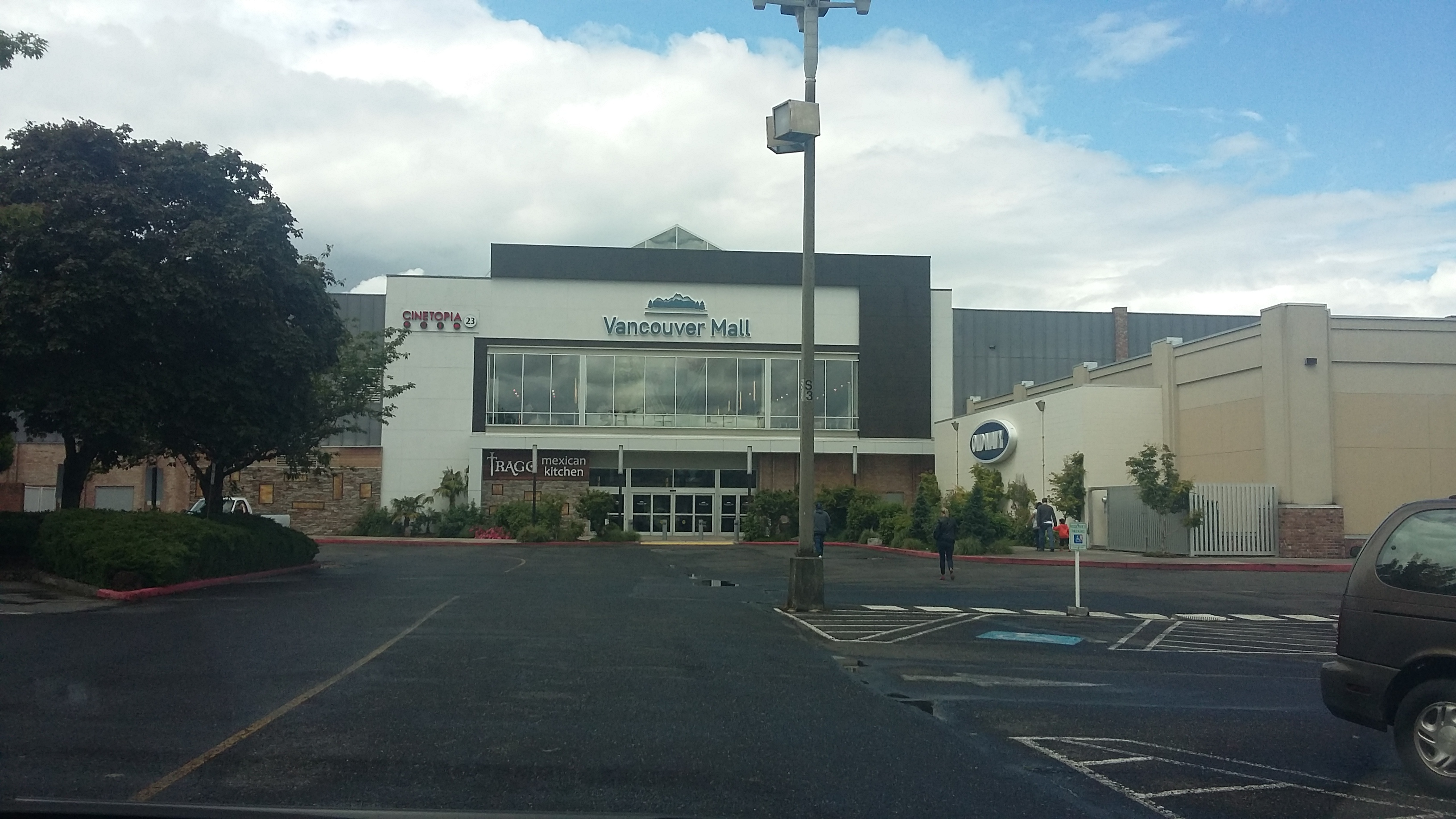 One of the entrances to the Vancouver Mall.